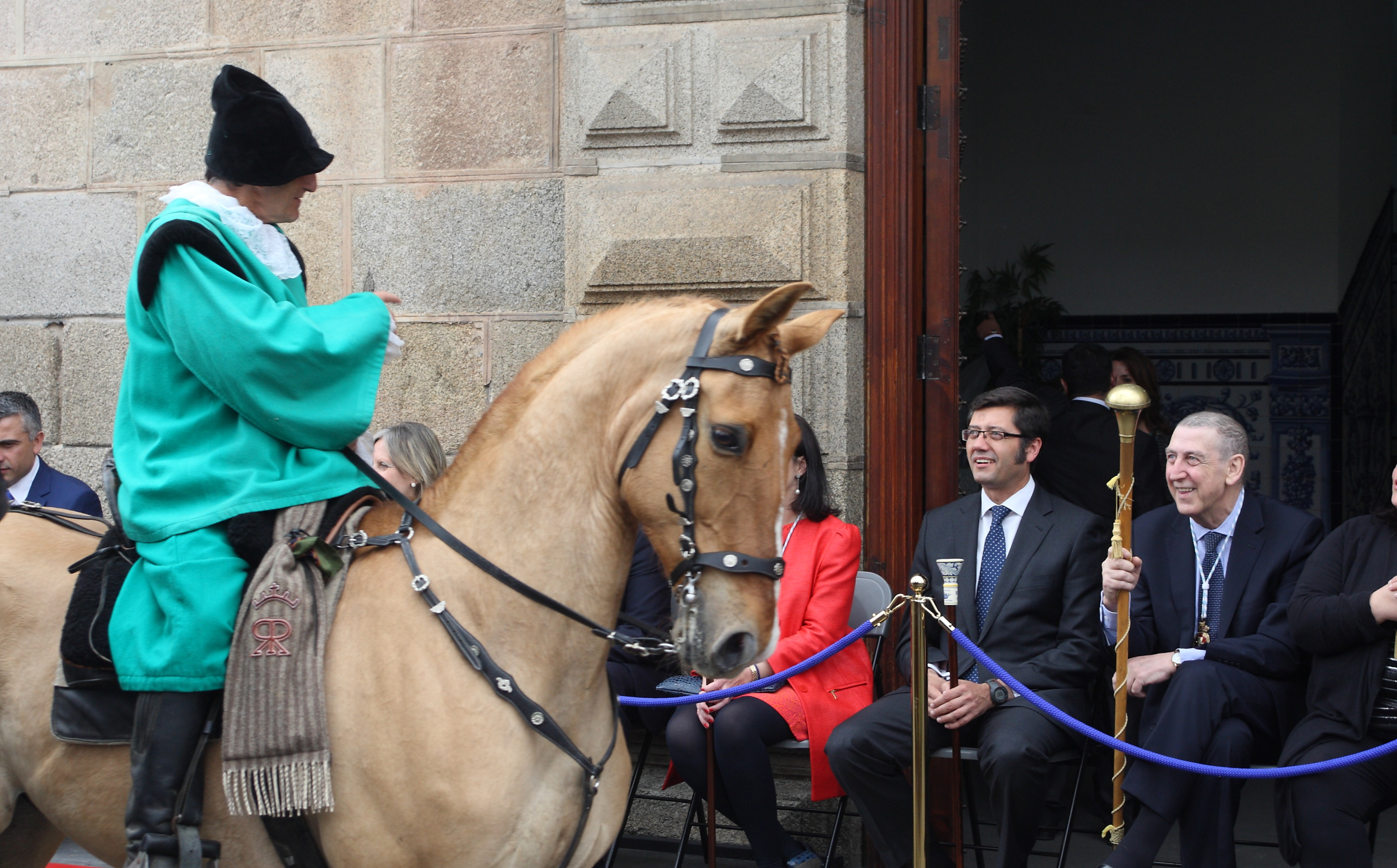 Fiesta de las Mondas en Talavera